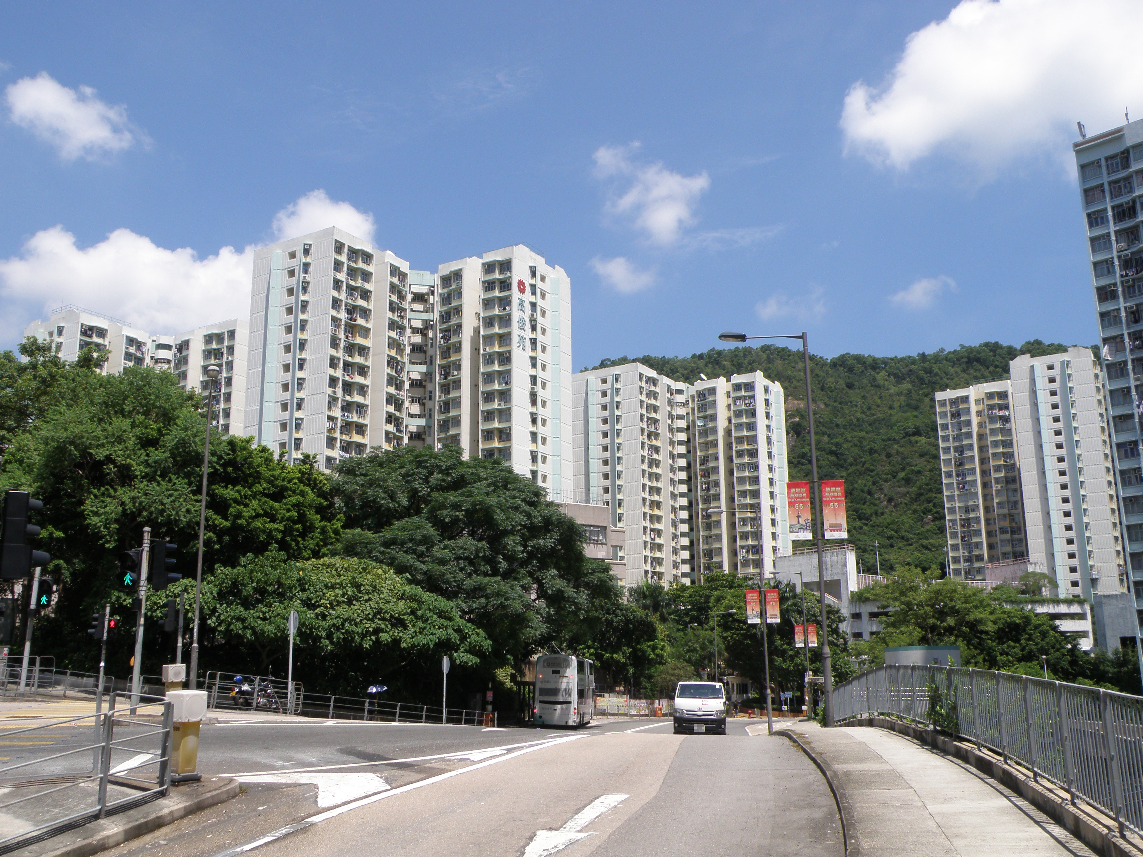 Ko Chun Court in Yau Tong, Hong Kong.